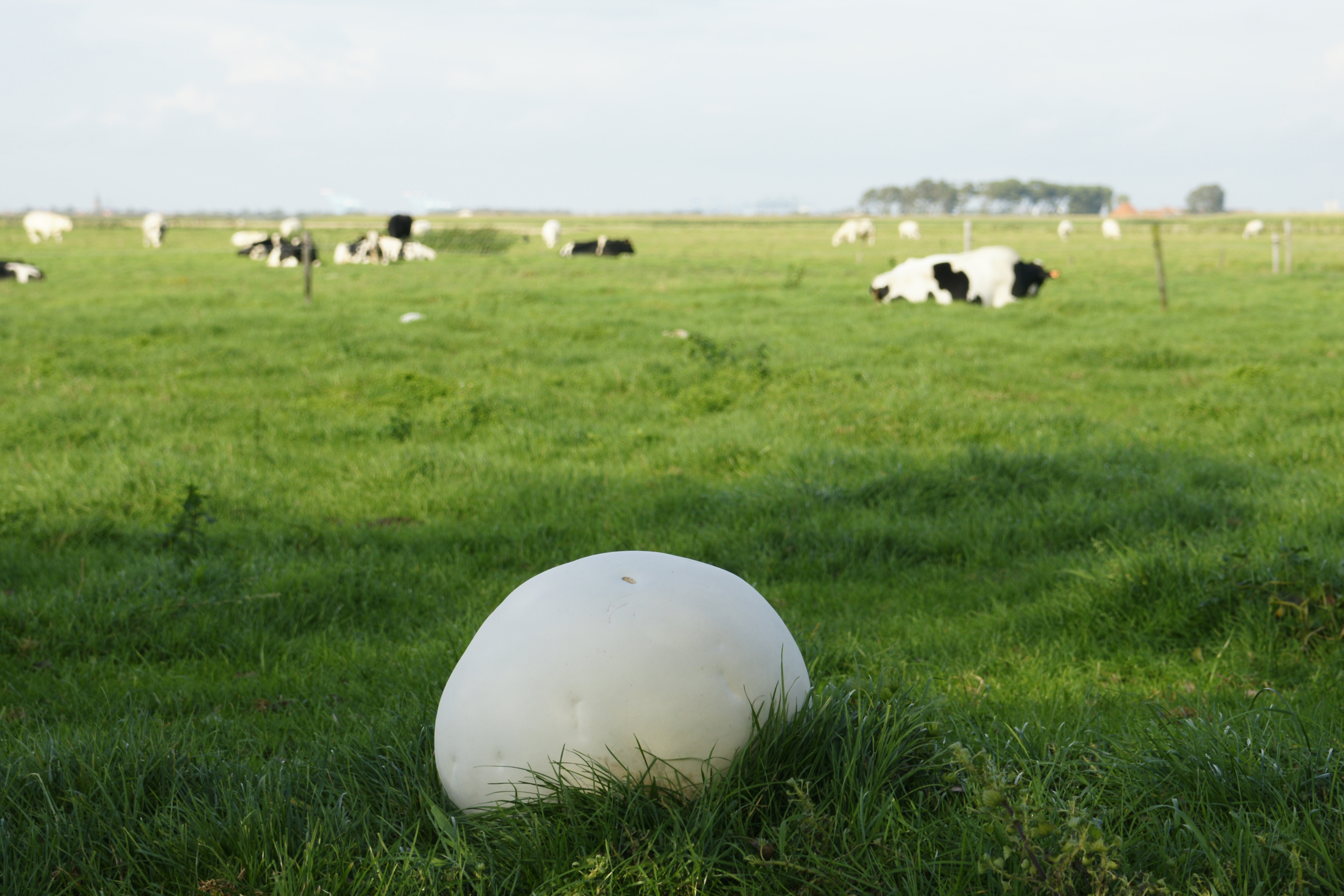 Giant puffball at Zuienkerke, Belgium